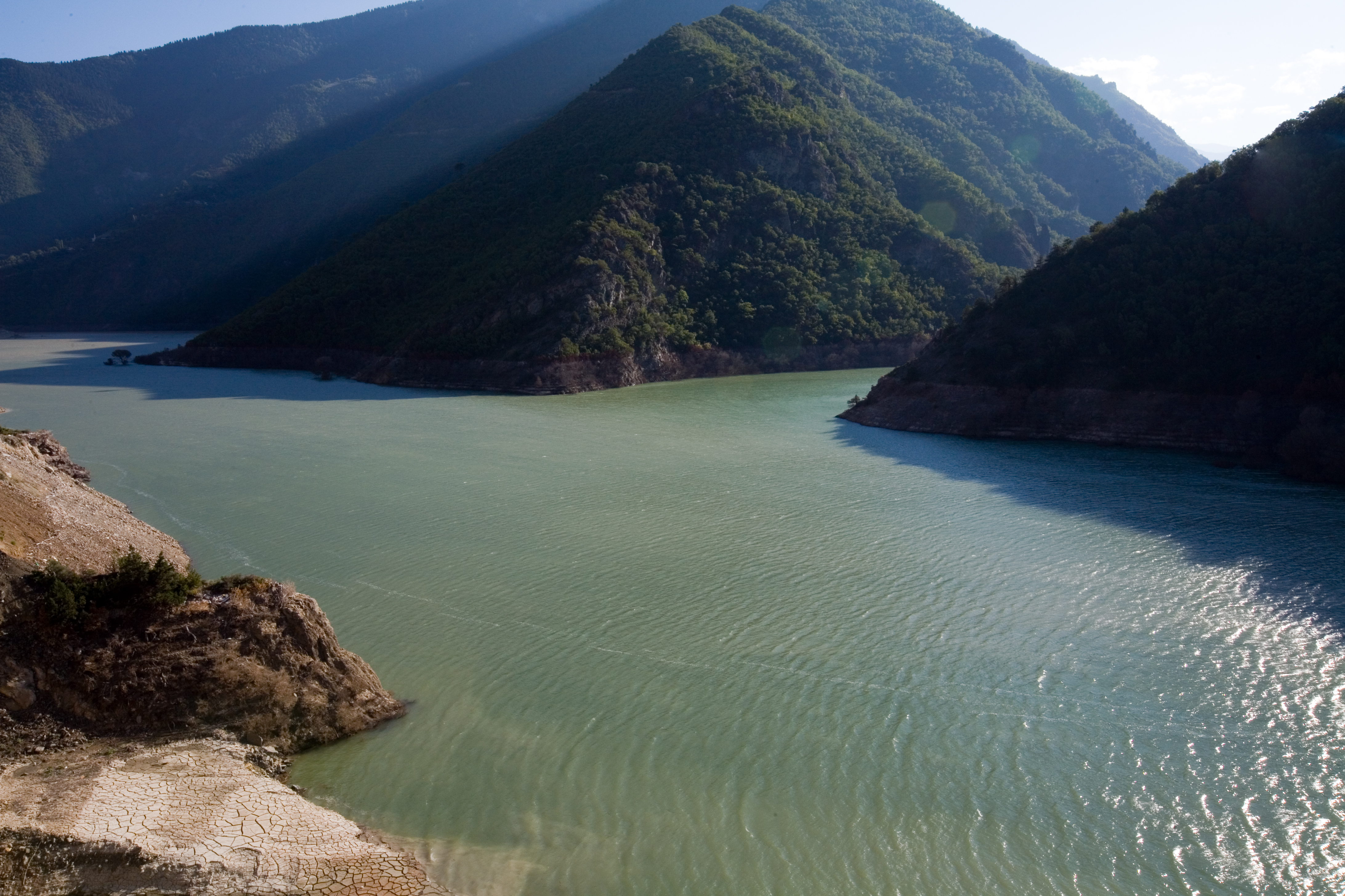 Borçka Reservoir, right: mouth of Hatila Deresi